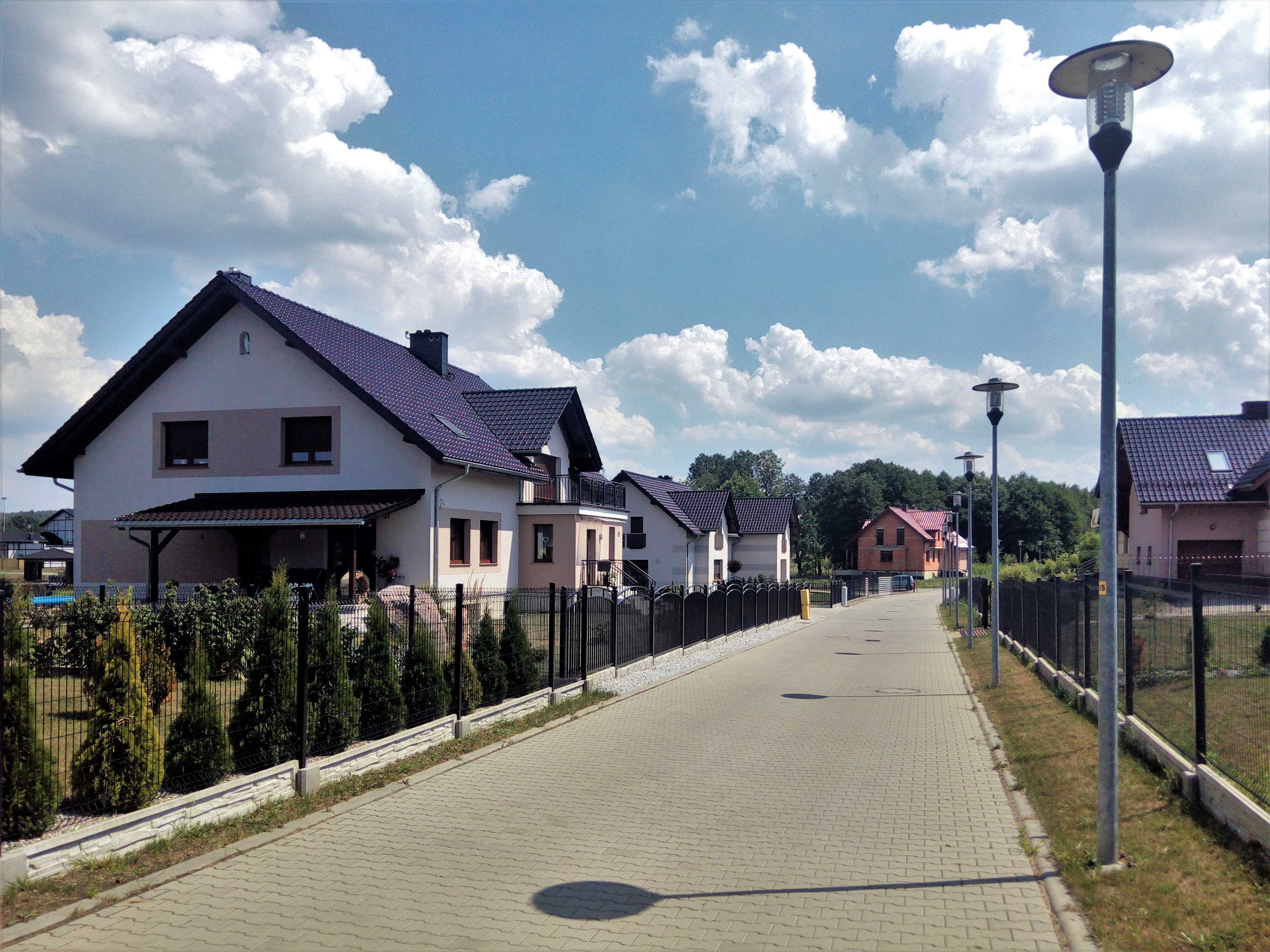 Rzeczna Street /River Street/ in the renewed village of Nieboczowy near Racibórz, Upper Silesia.